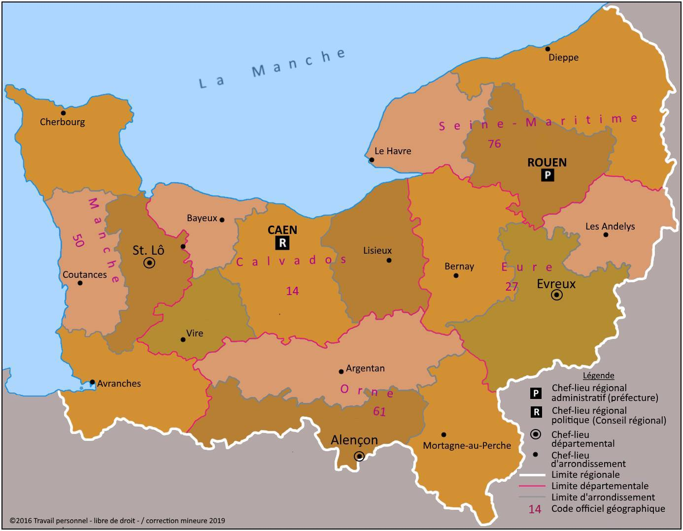 Normandy's counties map